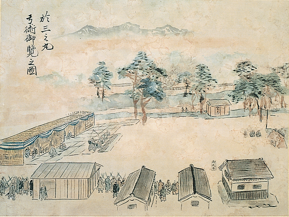 "Nagaoka jōka nenjū gyōji zue - Sannomaru kyūjutsu goran no zu". Picture of annual event of the Nagaoka Castle - A painting of the lord looking at samurai performing archery at sannomaru of the Nagaoka Castle. Collection of the Nagaoka City Central Library.